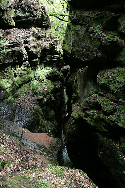 Crichope Linn, Dumfriesshire